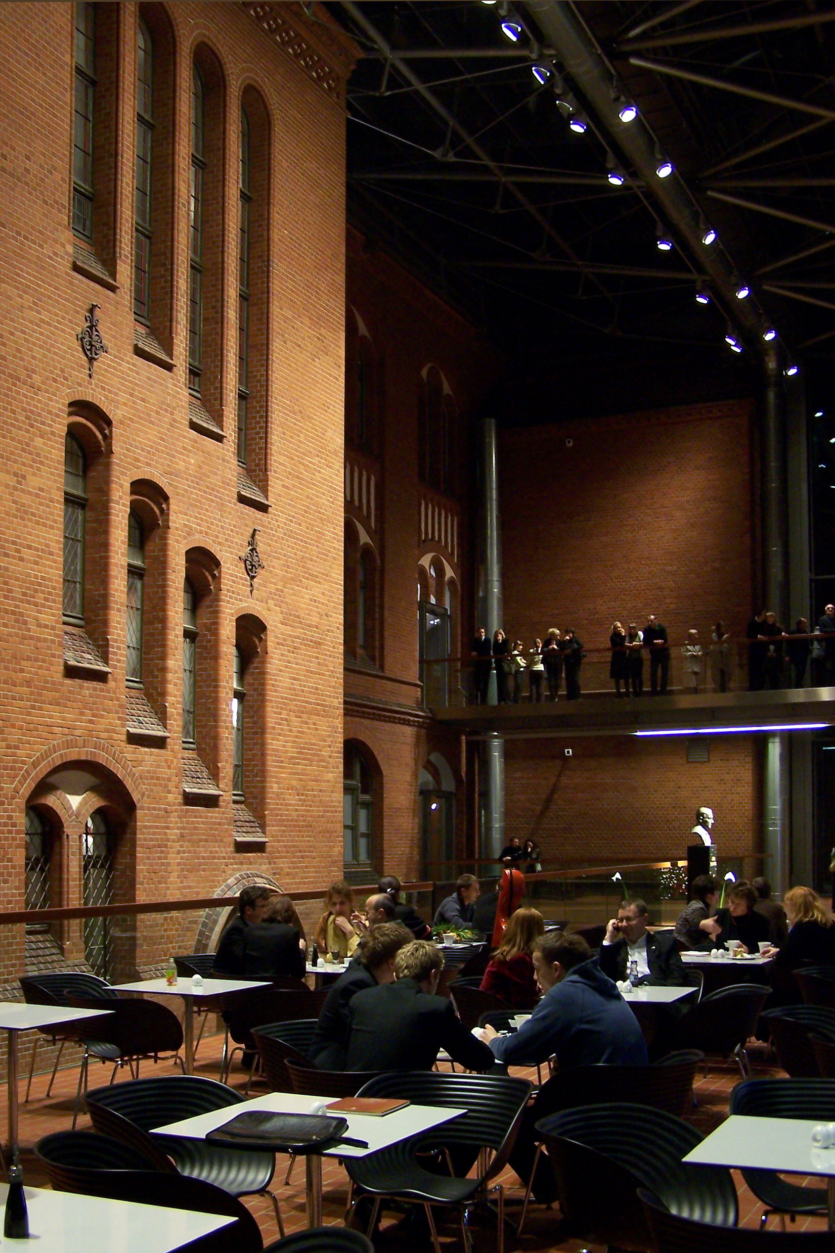 Academy of Music in Katowice.